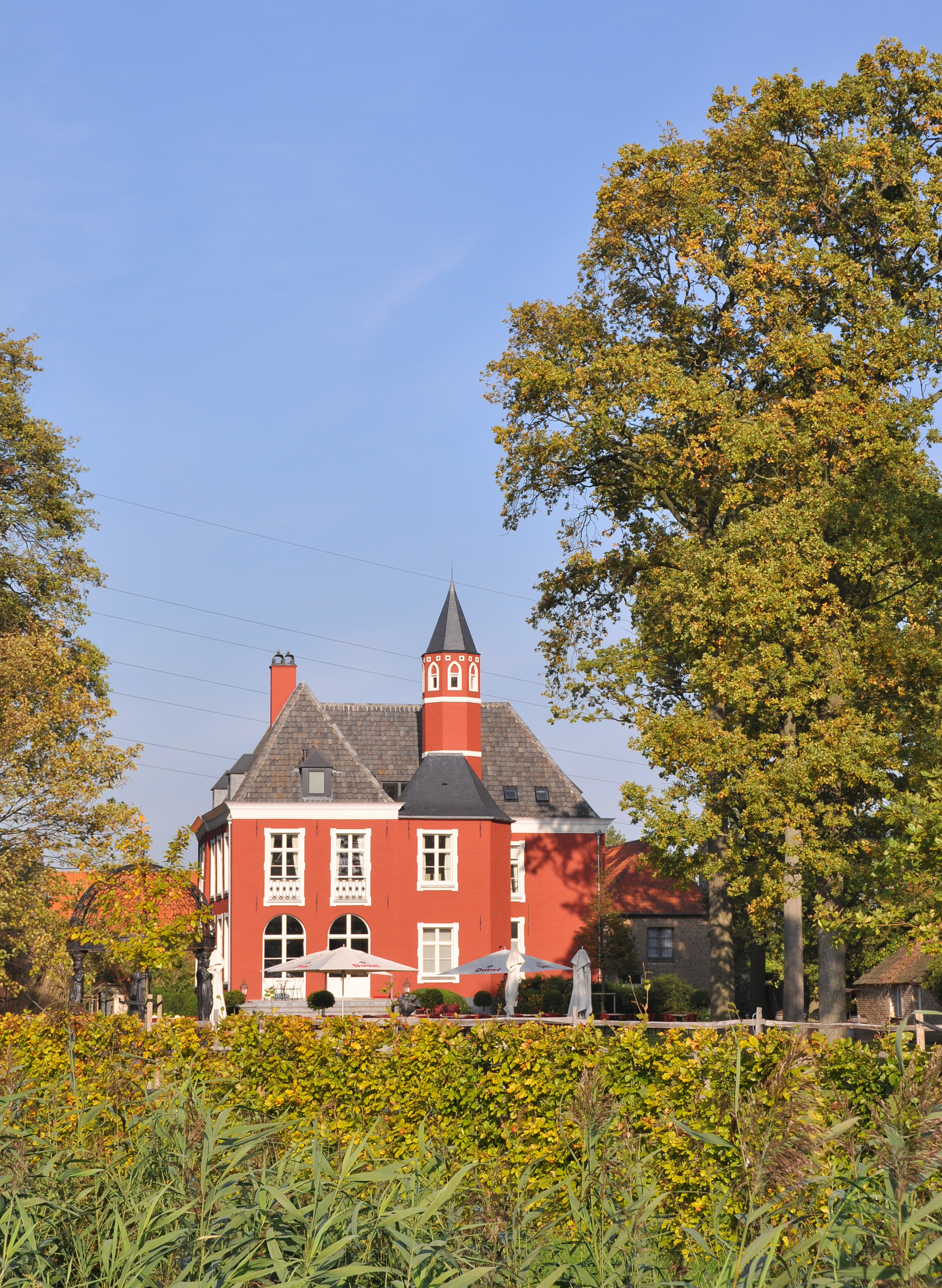 Koolkerke (Bruges, Belgium): Groene Poort castle, Dudzeelse steenweg 460 (now called Château Rougesse)